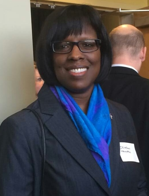 Jenean Hampton campaigning for Lieutenant Governor of Kentucky. She became the first African-American to hold any statewide office in Kentucky history. She served in the Air Force and recently earned her MBA.